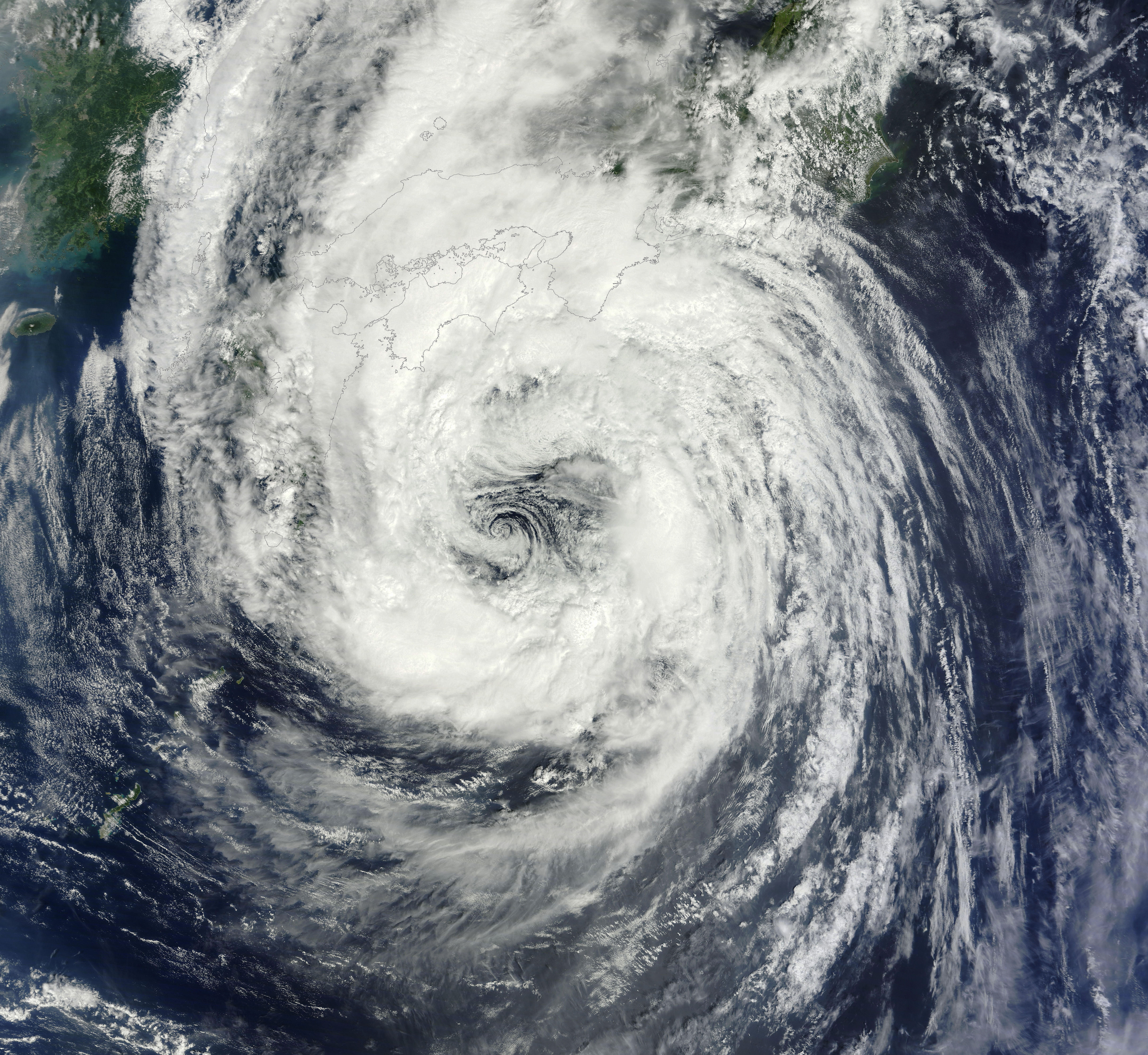 Typhoon Talas on September 2, 2011